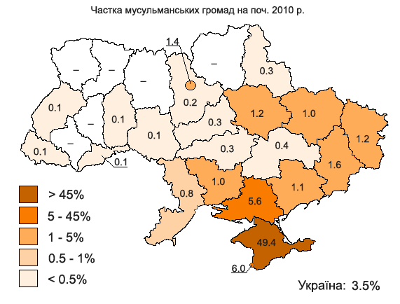 Muslim communities in 2010